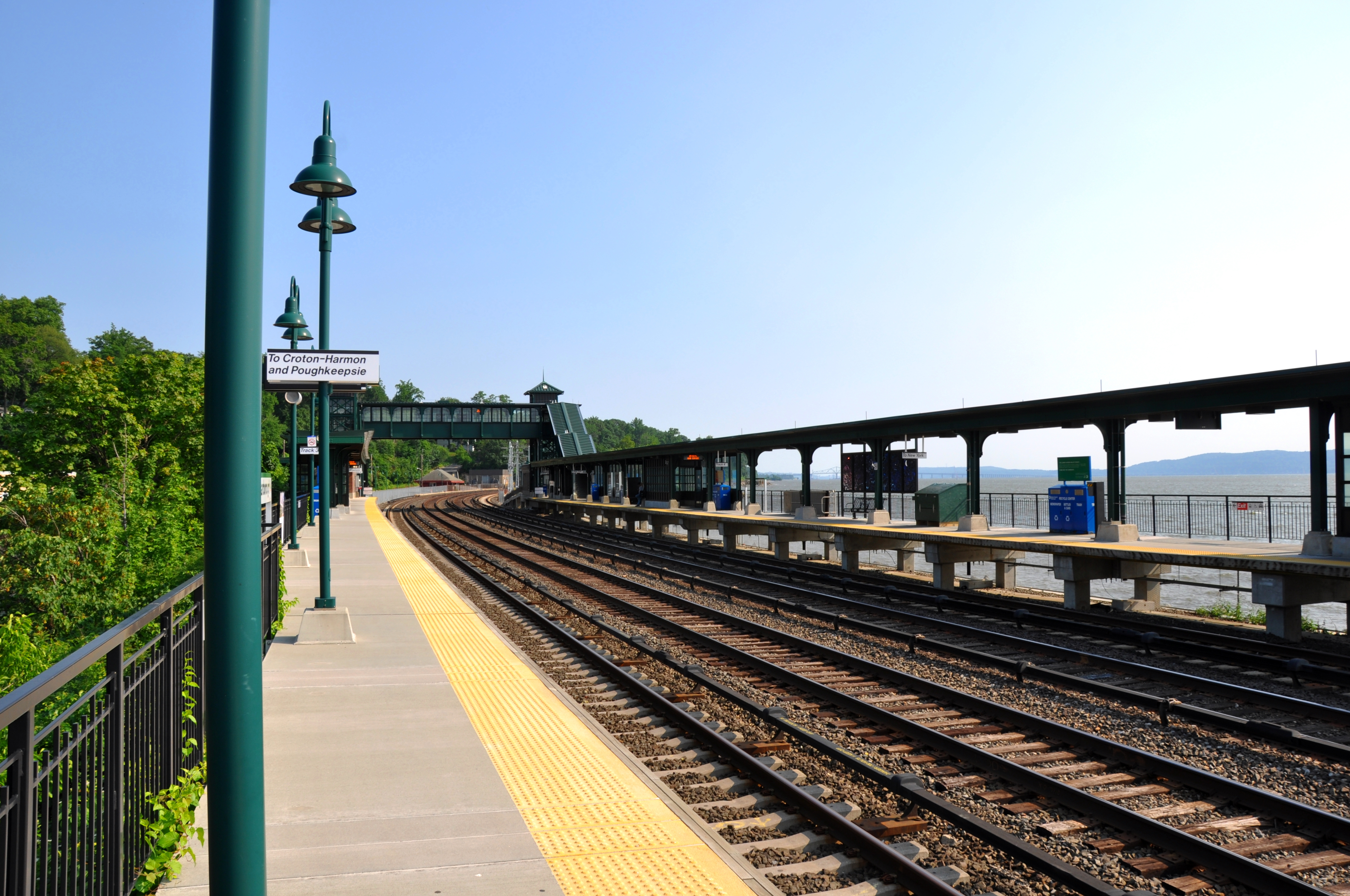 Scarborough Train Station in Briarcliff Manor, New York; photograph taken July 12, 2014.